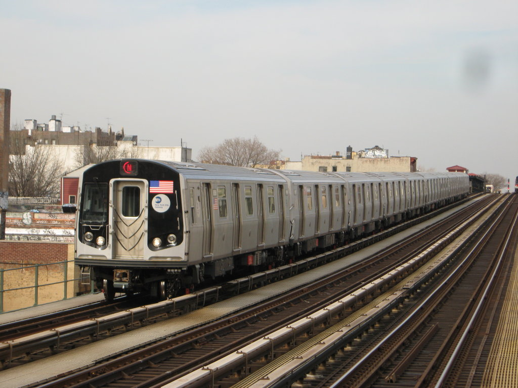 An R160B train, led by car #8888, approaches the 39 Avenue-Beebe Avenue station.